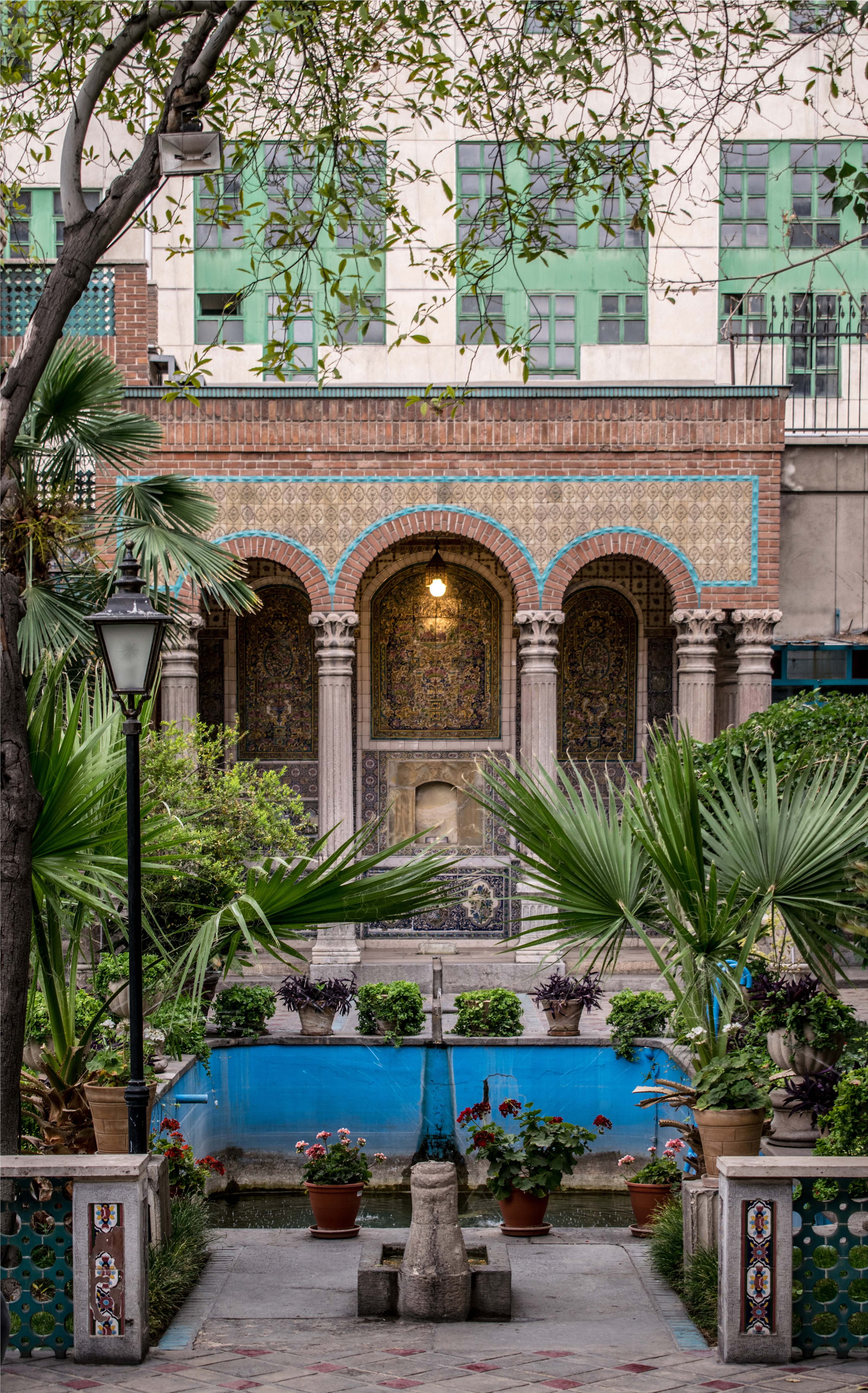 Moghadam Museum